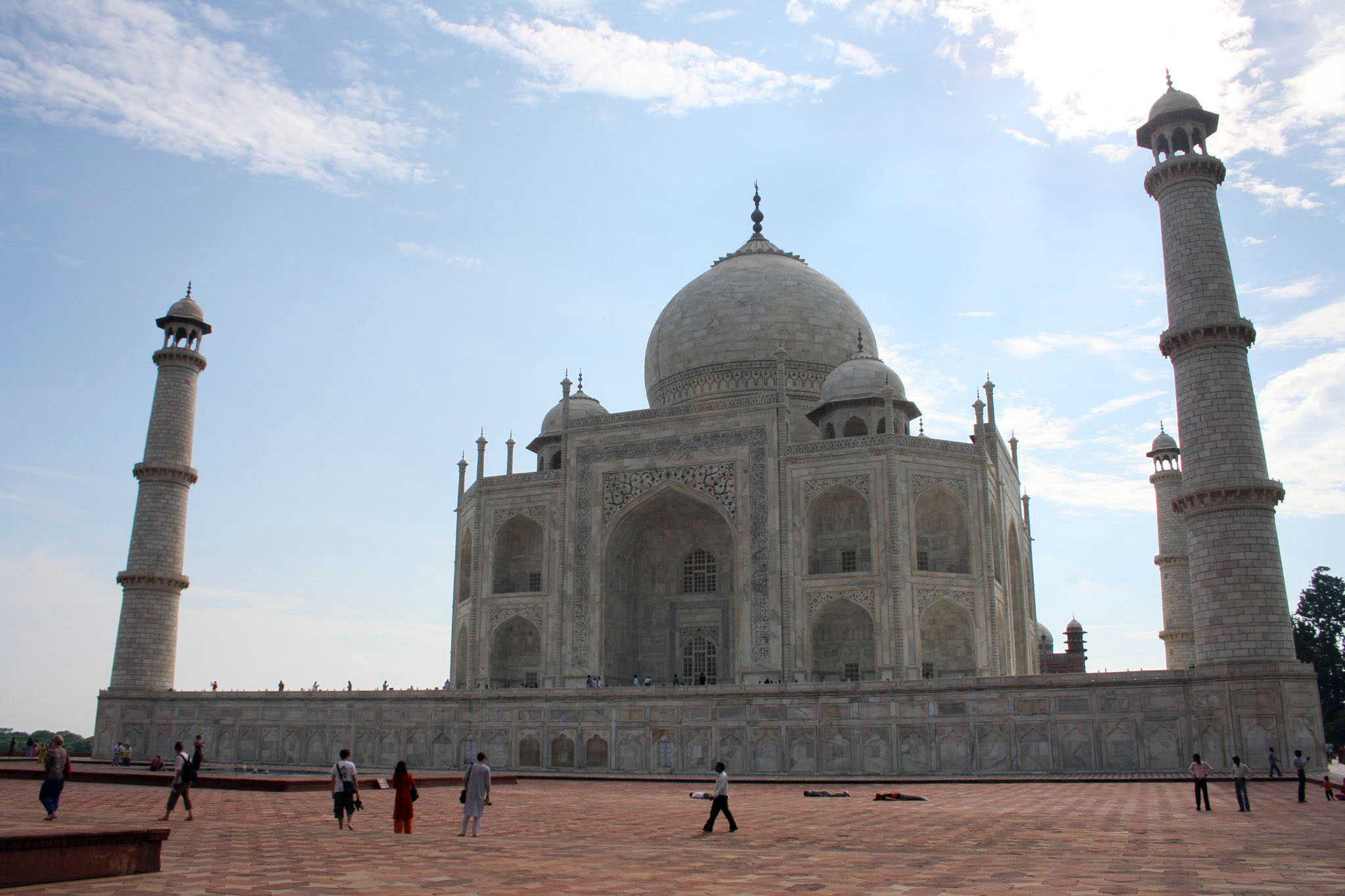 3 individuals engaging in the art of planking in front of the Taj Mahal, Agra, India. Also known as the 'lying down game'.